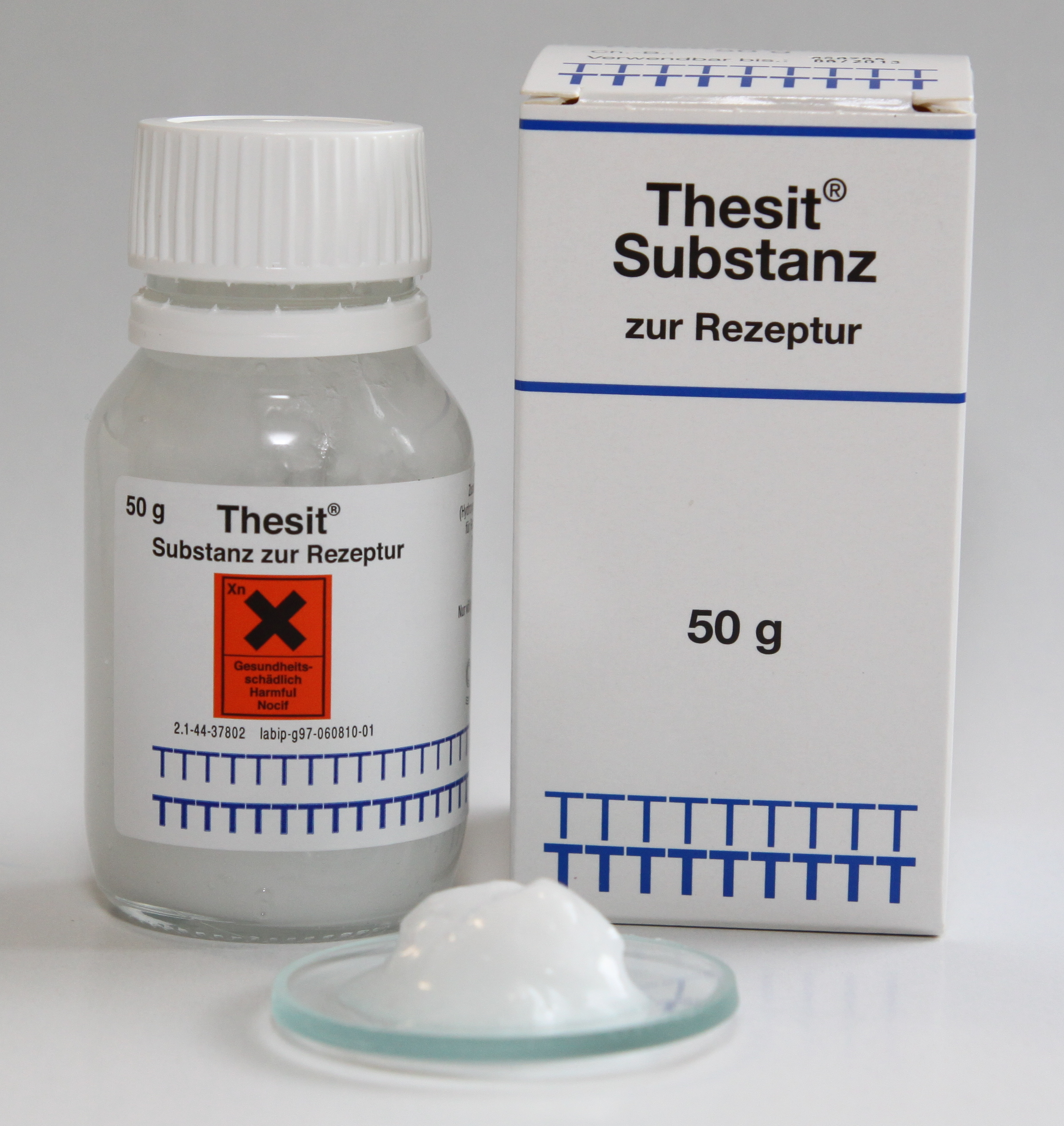 Thesit Substance (Polidocanol) for pharmaceutical use.